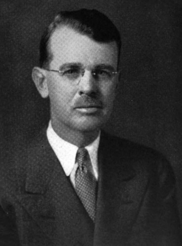 Joseph A. McNamara (US Attorney for Vermont)